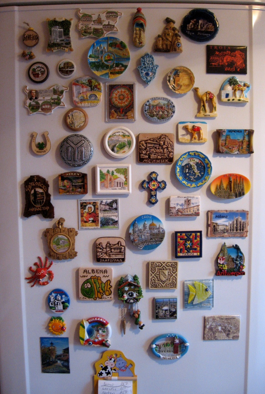 Refrigerator magnets